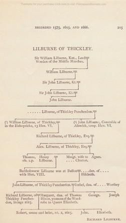 Sir William de Lilburne, Lord Warden of the Middle Marches, descendants from himself to Richard Lilburne, father of John "Freeborn" Lilburne, in a pedigree document regarding the Lilburne line of Thickley manor, following visitations in 1575, 1615 and 1666.